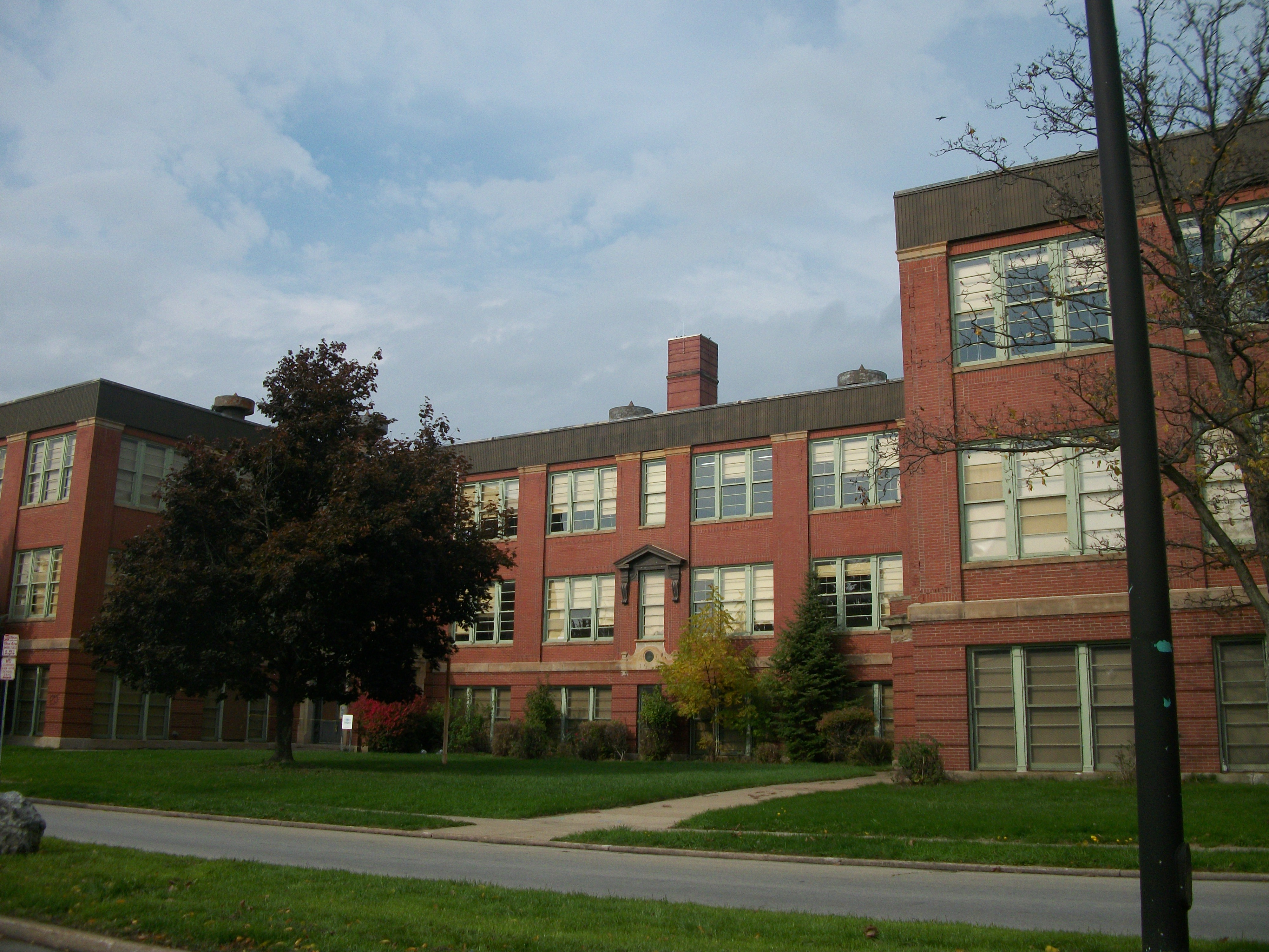 PS 63 Campus North School 120 Minnesota Avenue Buffalo, NY 14214